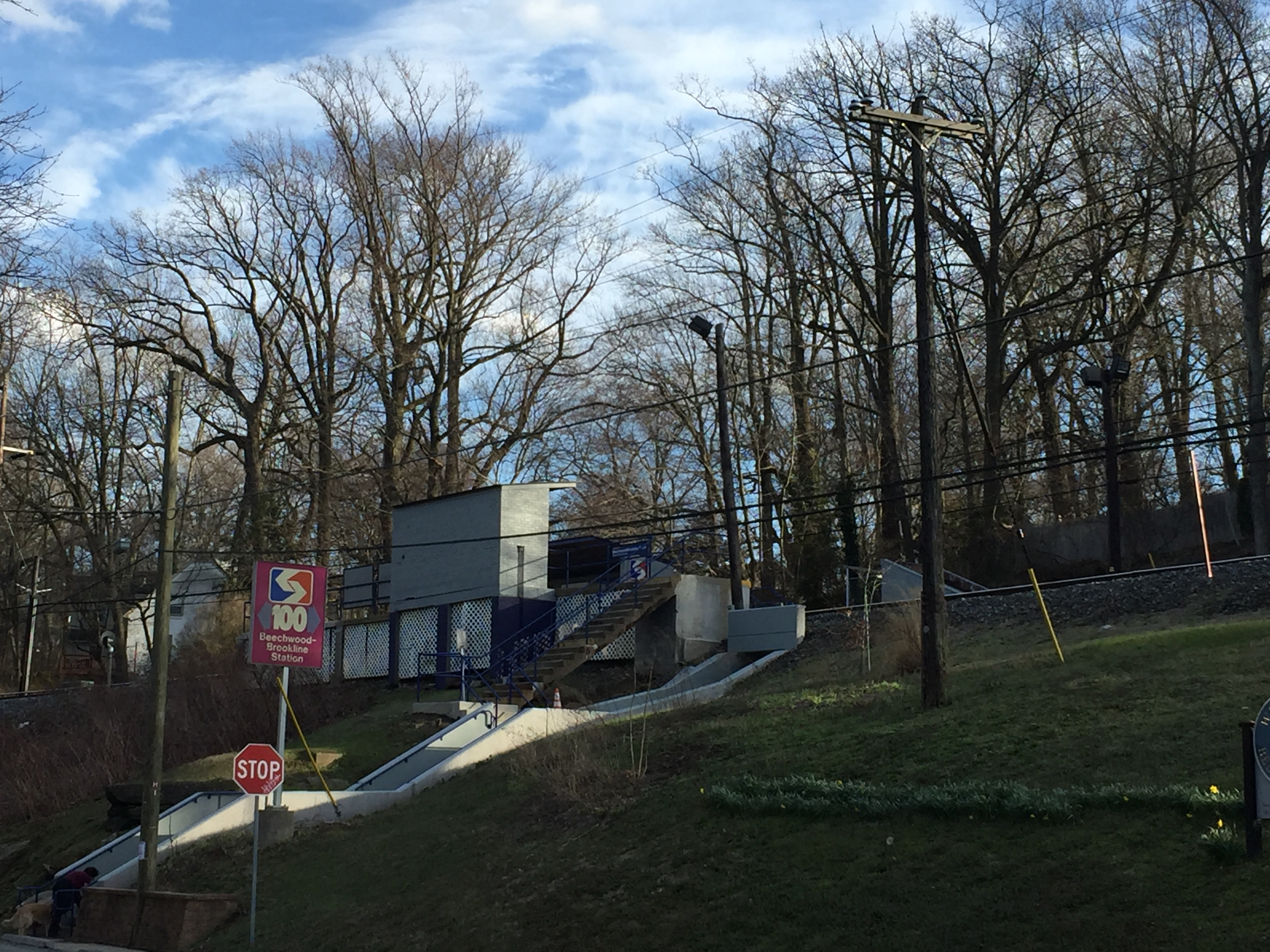 Beechwood Brookline station